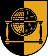 Source: "Fahnen-Gärtner GmbH, Mittersill" This file depicts a coat of arms. The composition of coats of arms are generally public domain with respect to copyright laws, and may be reproduced freely. This corresponds to the international traditional usage, and is explicitly stated in some national copyright laws. Some compositions, of more recent origin, may be copyrighted. This is not a valid license as such, being a "public domain" statement for the coat of arms definition only. It must be completed with the copyright tag associated to the picture creation. See Commons:Coats of arms for further information. Please note that this applies only to the coat of arms definition (composition / description). The representation of a coat of arms is an artistic creation, subject as such to copyright laws. Restriction of use - Legal notice: Most of the time, the usage of coats of arms is governed by legal restrictions, independent of the status of the depiction shown here. A coat of arms represents its owner. Though it can be freely represented, it cannot be appropriated, or used in such a way as to create a confusion with or a prejudice to its owner. Usage on Commons: Please provide licence information for the coat of arm representation, information for the author of the picture, and the source if not self-made work. This image is in the public domain according to Austrian copyright law because it is part of a law, ordinance or official decree issued by an Austrian federal or state authority, or because it is of predominantly official use. (§7 UrhG) To uploader: Please provide where the image was first published and who created it.